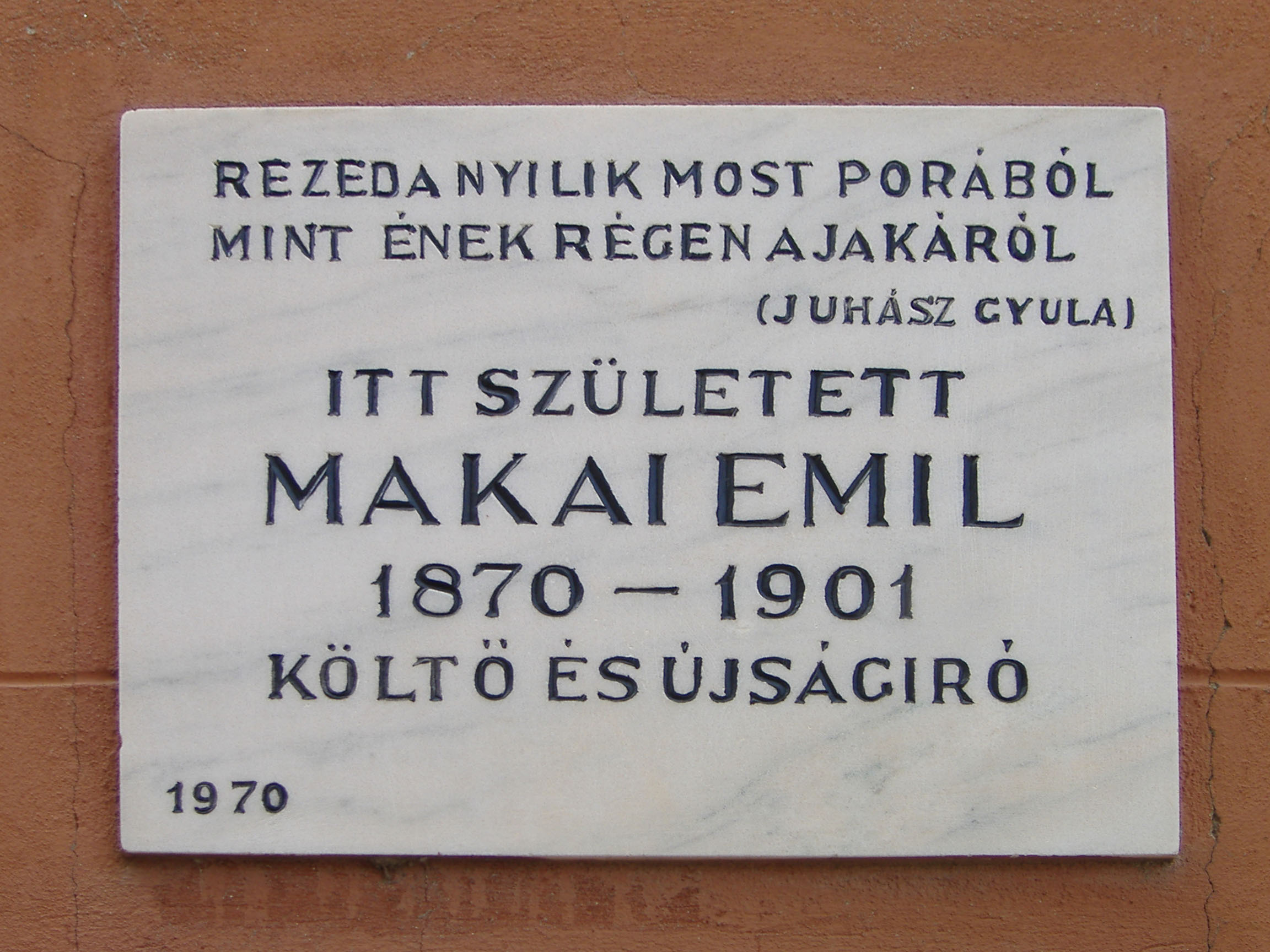 Memorial tablet of Emil Makai, Hungarian writer and poet in Makó, Hungary.